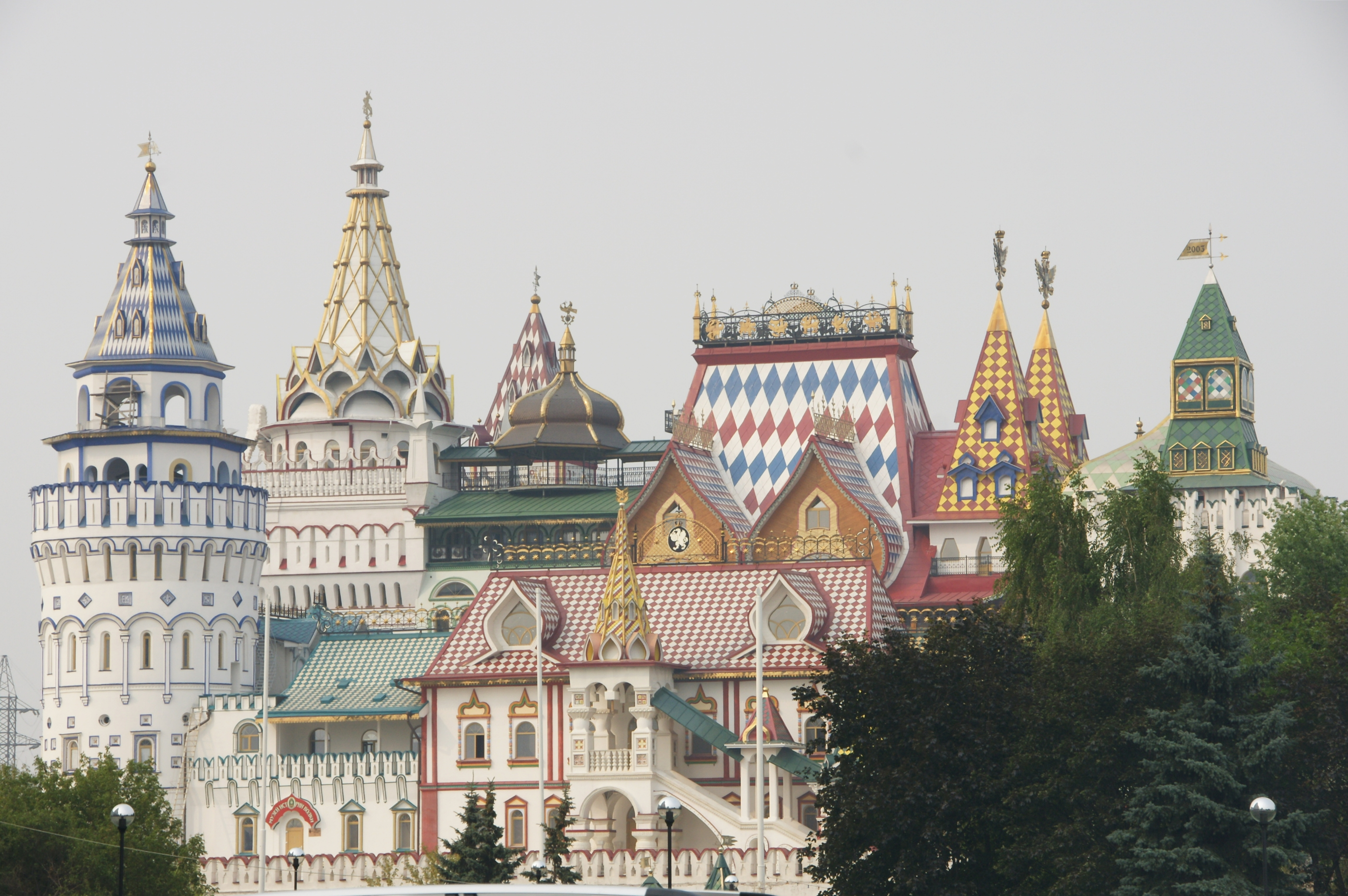 Kremlin in Izmailovo